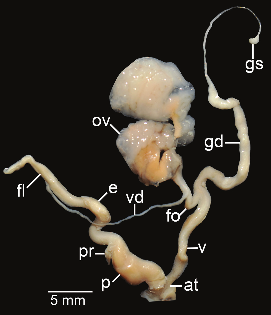 Photo of a reproductive system of Amphidromus xiengensis from Luang Phrabang, Laos (CUMZ 7035). Scale bar is 5 mm.